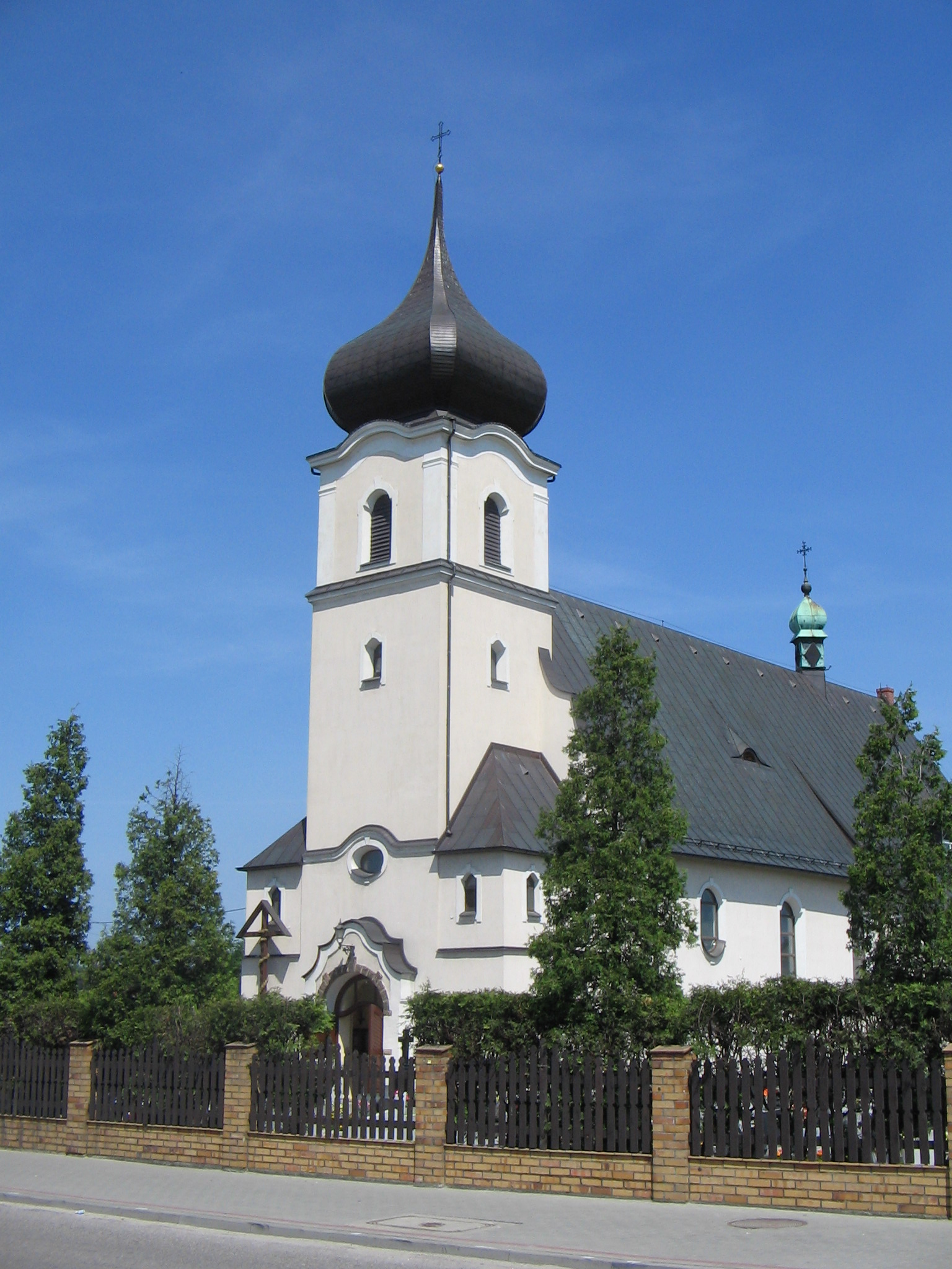 Our Lady of the Rosary church in Nędza, Poland, built in 1908